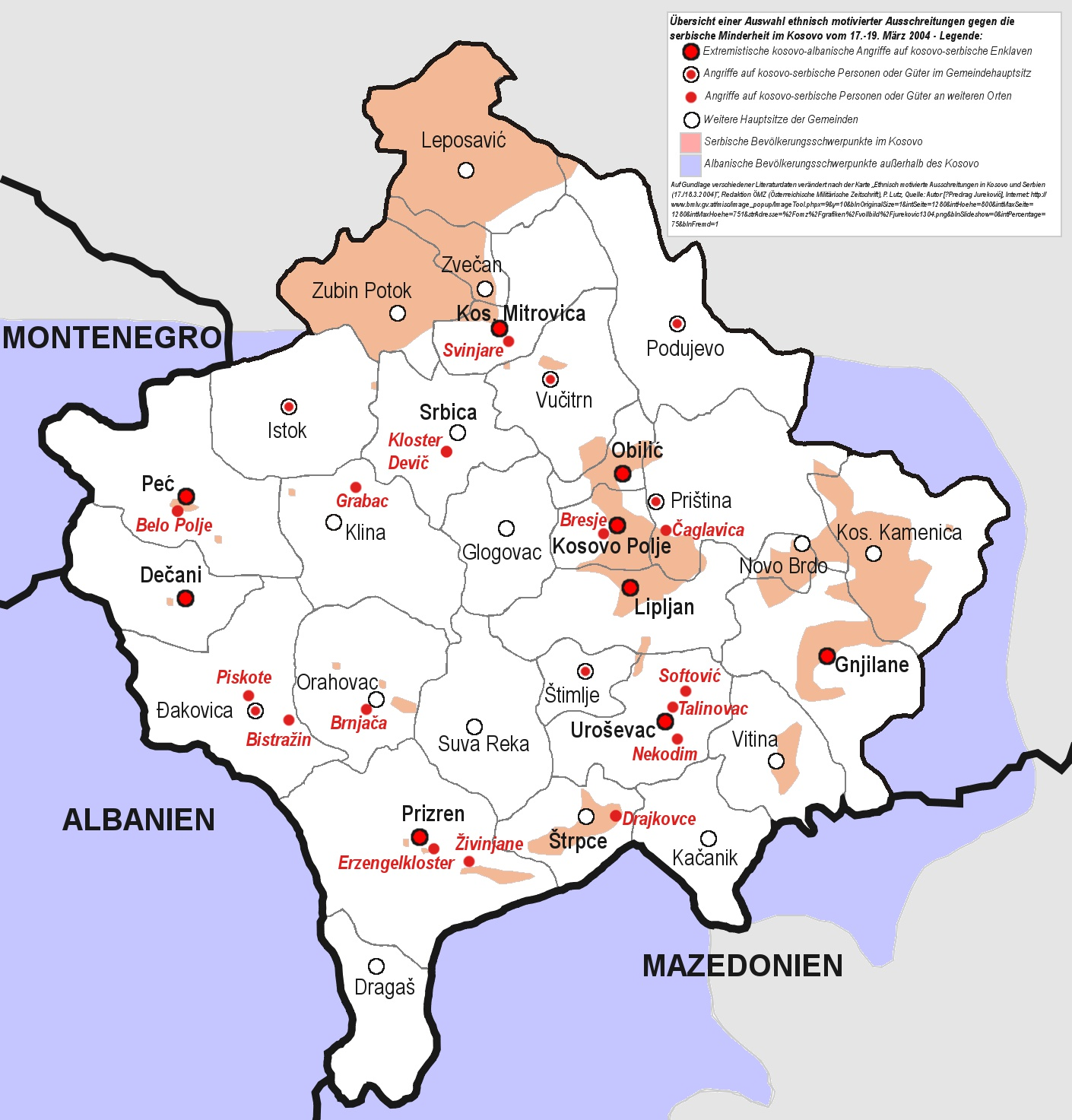 Ethnical motivated riots in Kosovo, Marach 17th-19th, 2004. Modified after zhe map „Ethnisch motivierte Ausschreitungen in Kosovo und Serbien (17./18.3.2004)“, Redaktion ÖMZ (Österreichische Militärische Zeitschrift), P. Lutz, source: author [?Predrag Jureković], internet ( 555 X 600 px: 1478 px X 1597 px